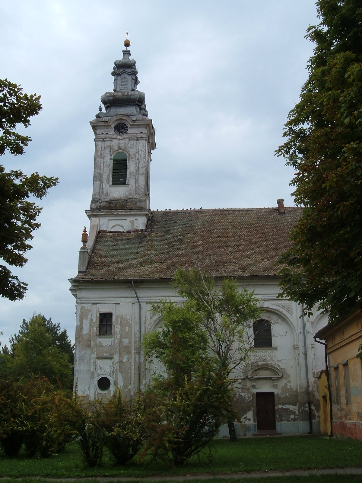 Vrbas town, Serbia, Reformate church.